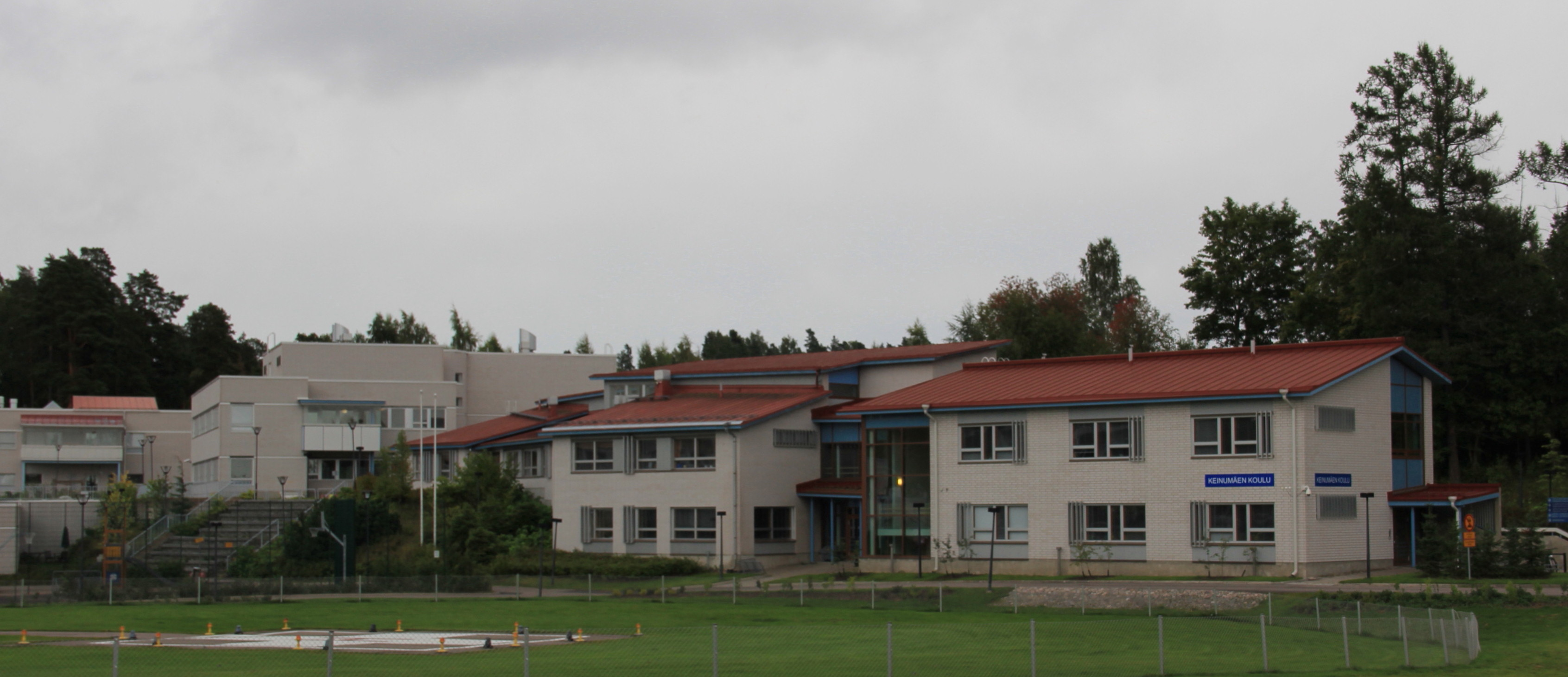 Keinumäki school, Espoo, Finland.